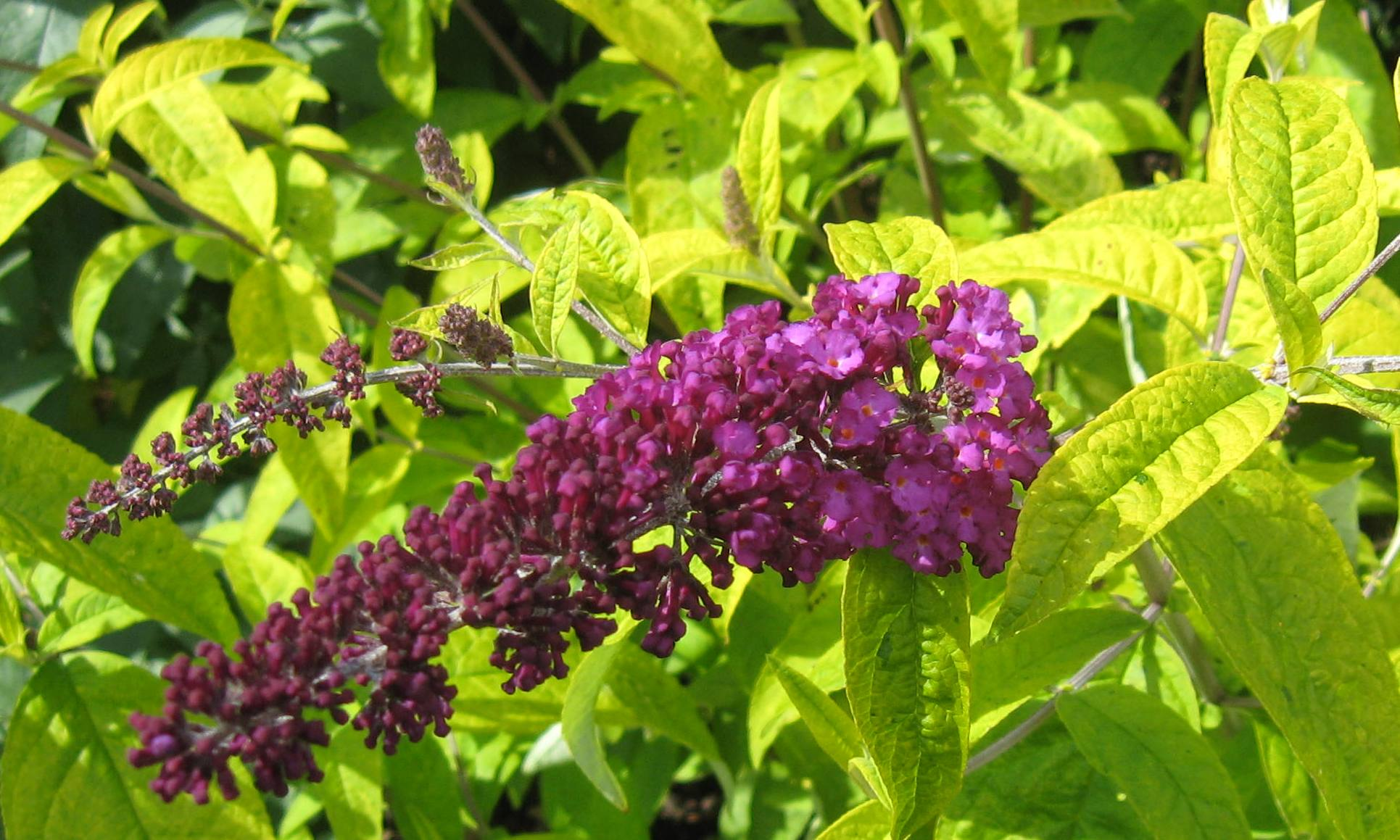 Photo of Buddleja davidii cultivar 'Leela Kapila' taken at Longstock Park, UK